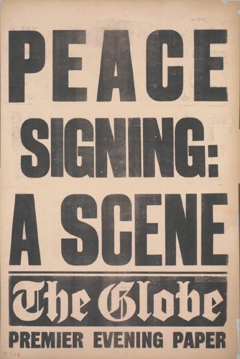 Placard for The Globe : "Peace Signing : a Scene" : referring to signing of the Treaty of Versailles.